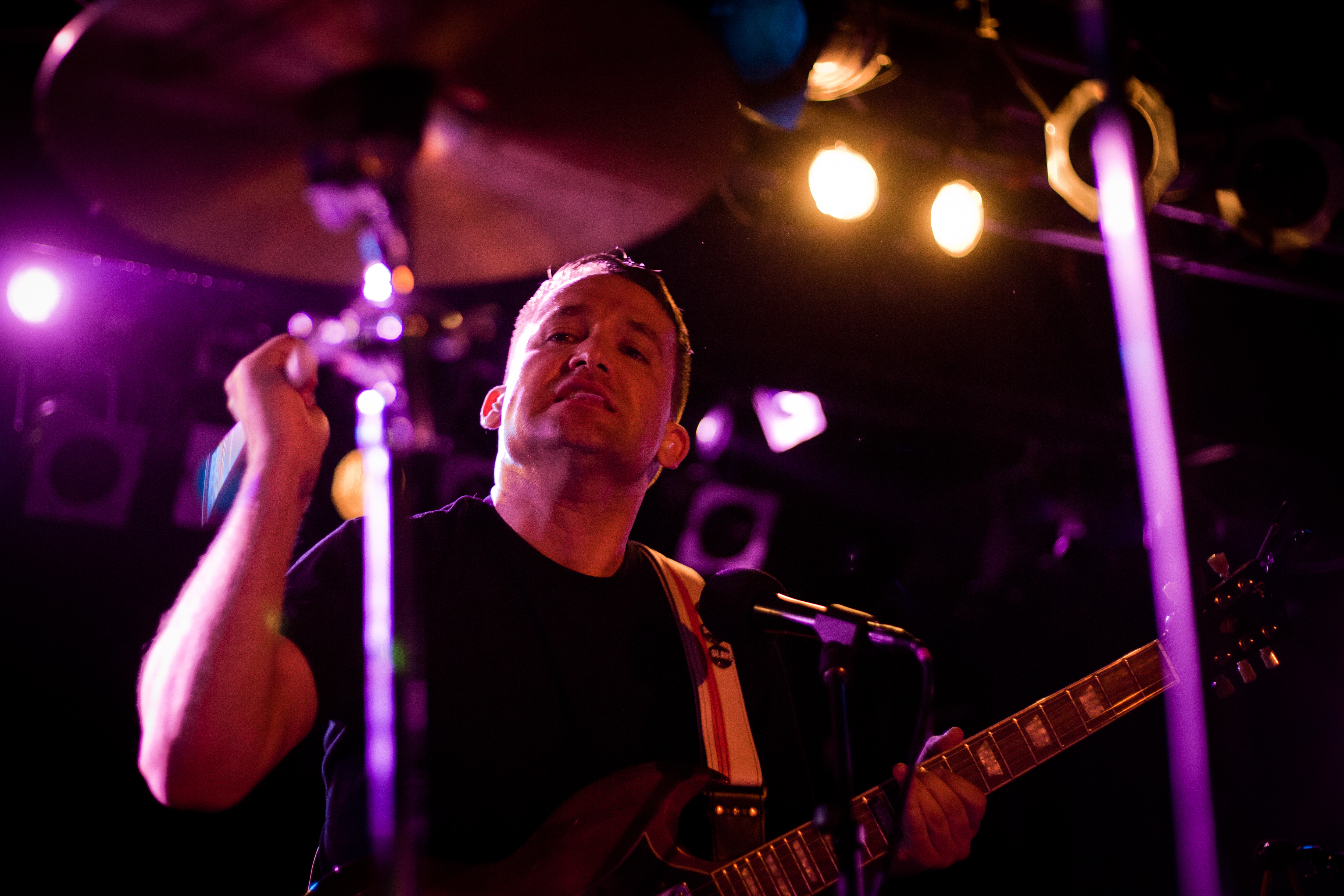 Jamie Stewart of Xiu Xiu performing at Debaser Slussen in Stockholm, Sweden. (The concert actually started on 2010-11-06 but this shot was taken after midnight.)